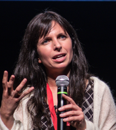 The Summer Of Flying Fish